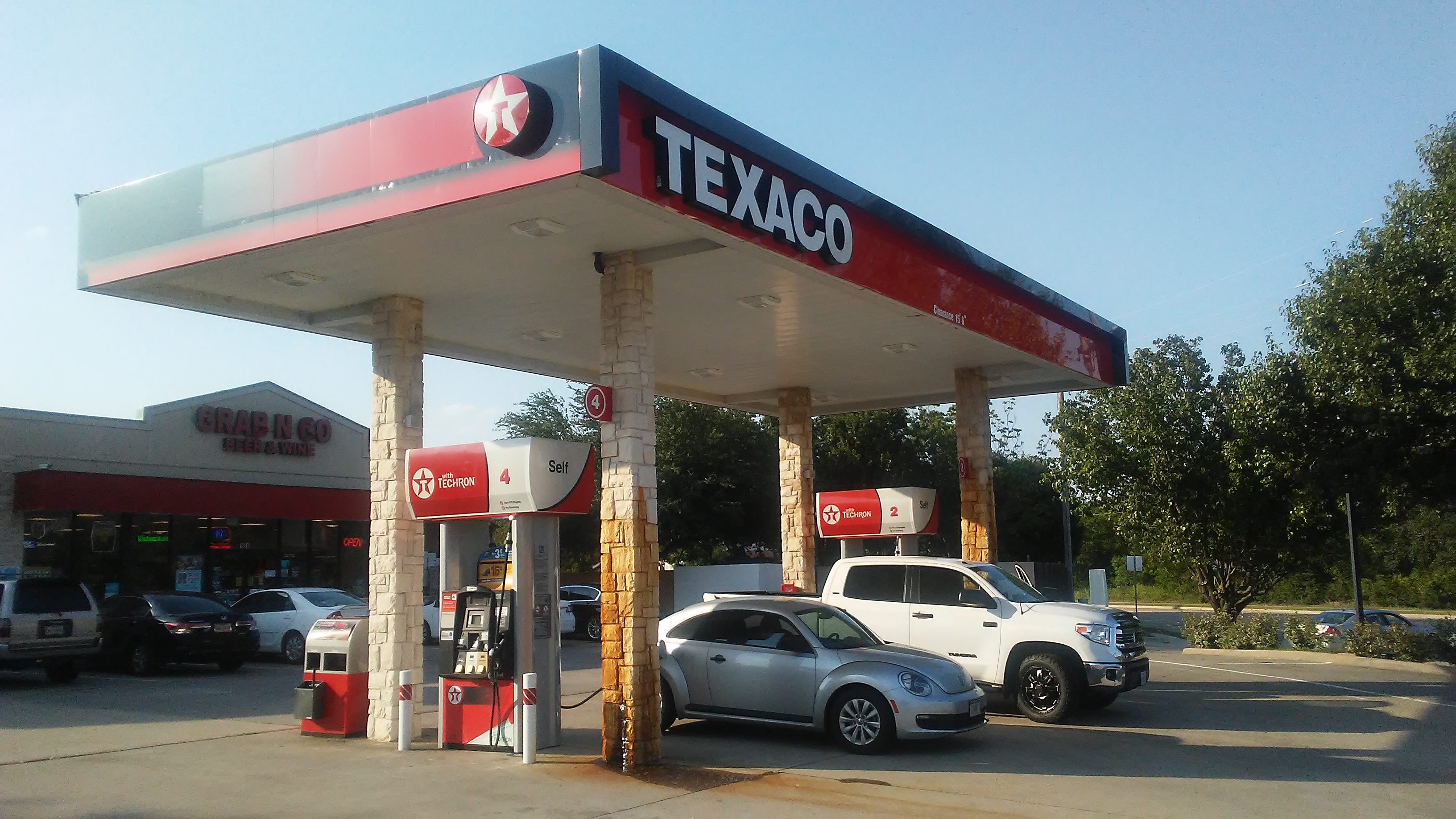 A Texaco station in Lewisville, Texas, taken on June 10, 2017